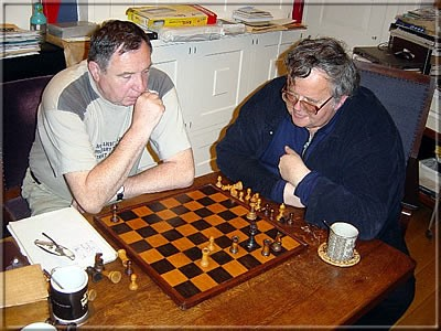 photo of endgame composers Nikolay Kralin and Yochanan Afek